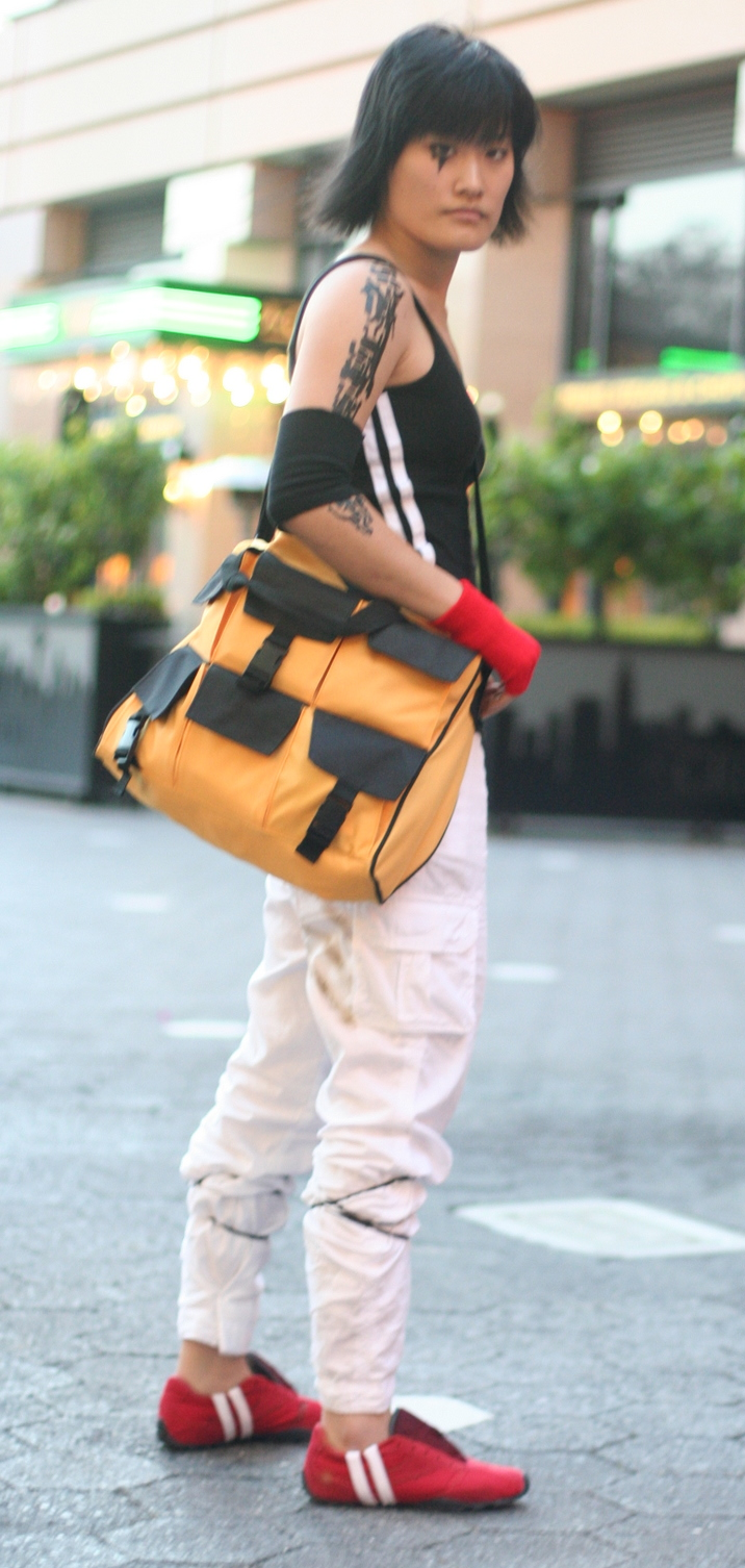 Cosplay of Faith Connors from Mirror's Edge.